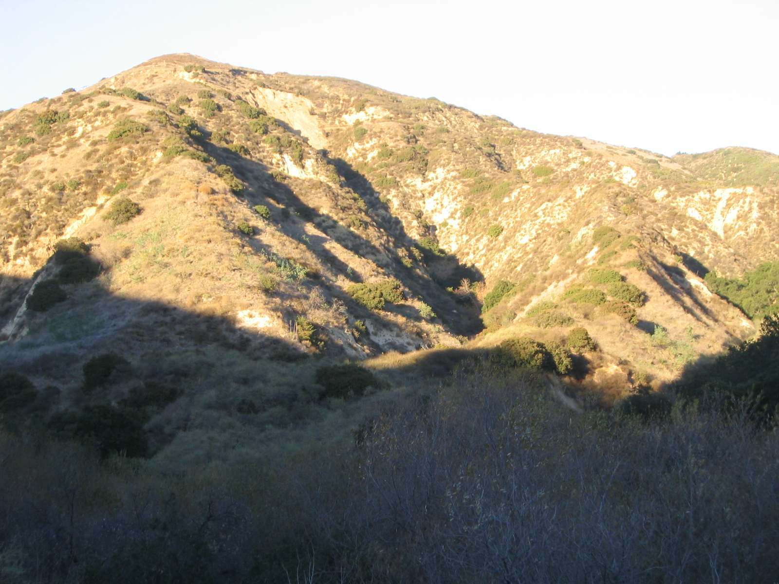 Chaparrel scrubland in Aliso Canyon, of the Santa Susana Mountains, above the San Fernando Valley in Southern California. December 24, 2005.